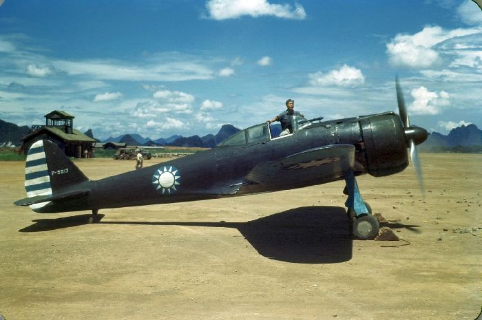 Nakajima Ki43 II, P-5017, Chinese AF, China, c44-45 04340001 Jack D. Canary Special Collection Photo Jack Canary was a Tech Rep with North American Aviation in China during World War Two. After the War, he continued to work with NAA and also built and restored aircraft. He worked as a consultant on the film “Tora, Tora, Tora” and was killed while flying a PT-22 for the film in 1968. COMMONS.SOURCE INSTITUTION: San Diego Air and Space Museum Archive